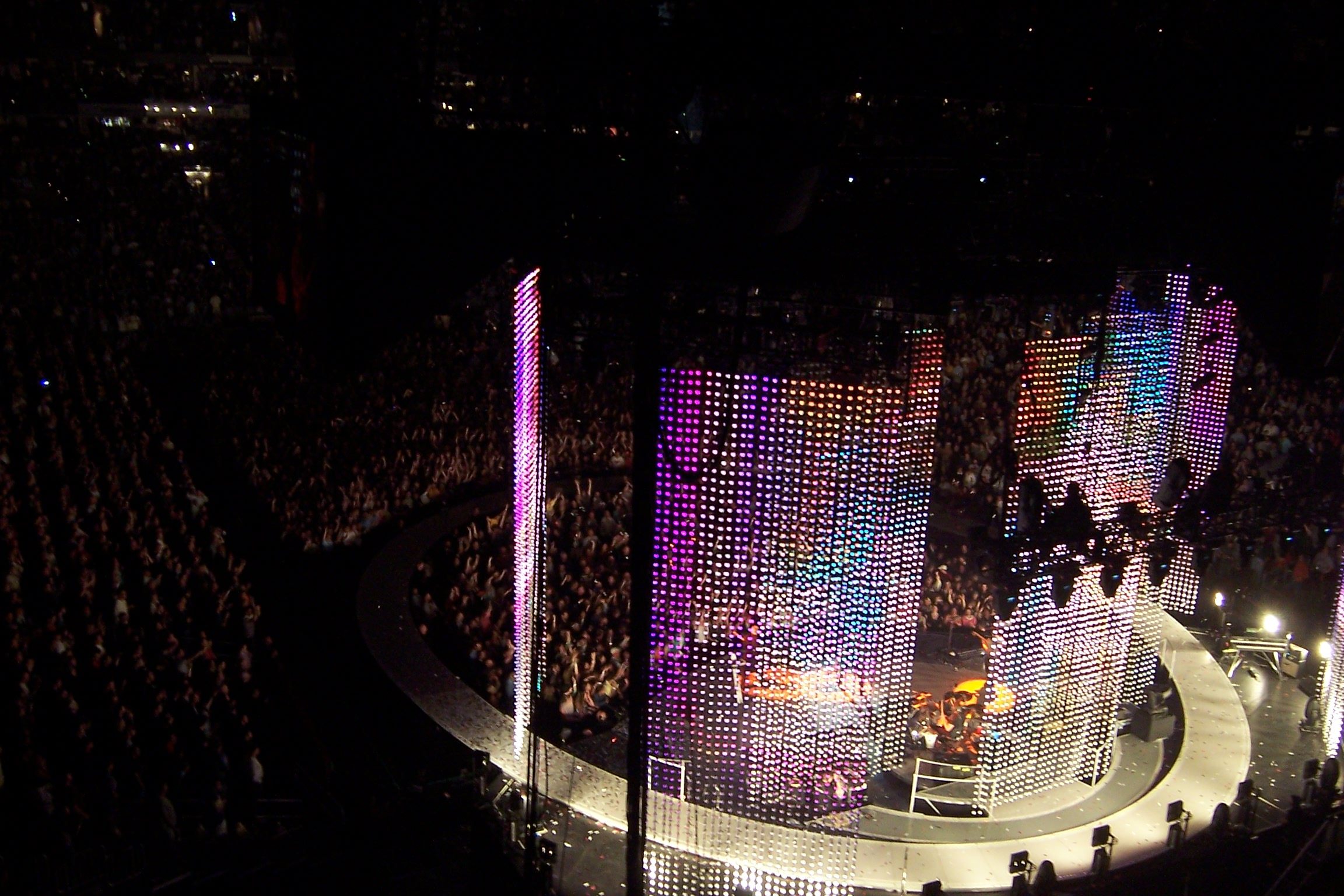 U2 concert, stage and light design, Philadelphia, 22 May 2005. Taken by me.